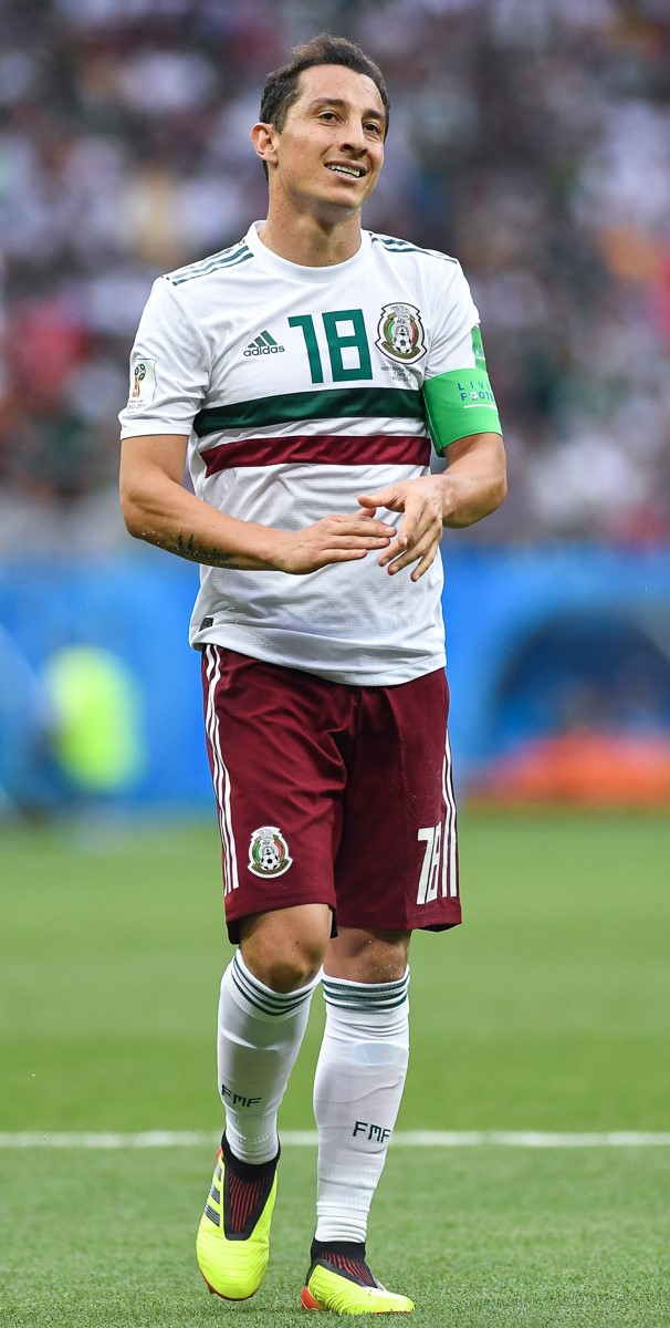 Andrés Guardado